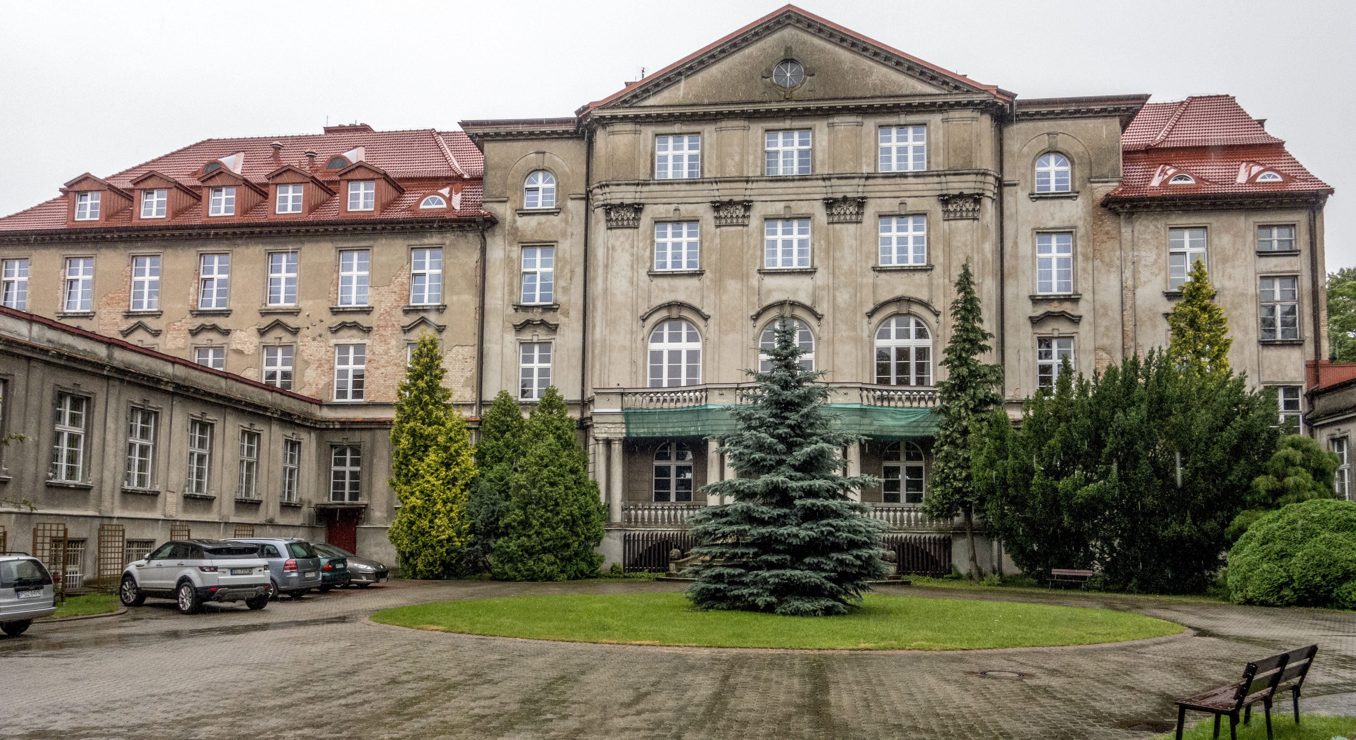 Convent of Society of the Sacred Heart in Pobiedziska (Poland)